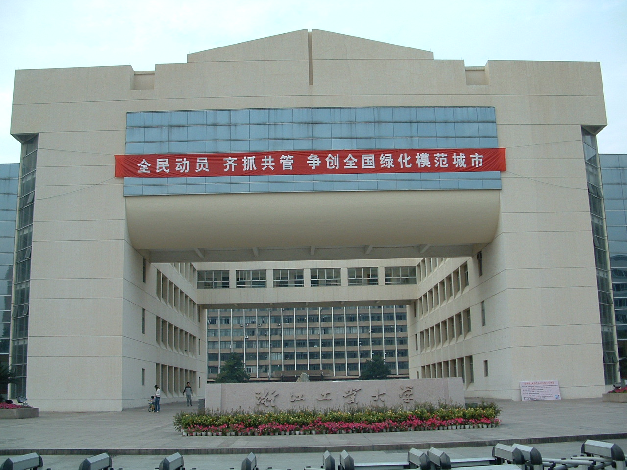 ZJUT headquarters